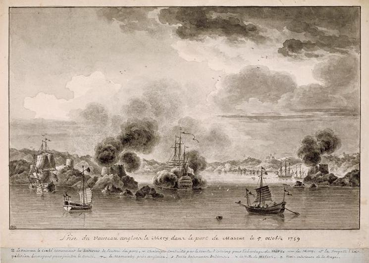 Attack and capture the British vessel Mery in 1759 in the port of Mascatte by Count d'Estaing. Corsair, Seven Years War.